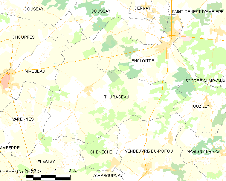 Map of French municipality Thurageau